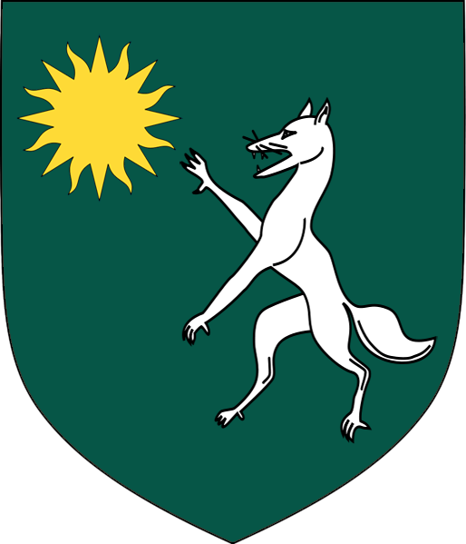 Coat of arms of the Tubridy (Ó Tiobraide).